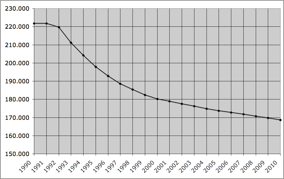 Ida-Viru County's population, Estonia, (1990-2010). Created in Microsoft Excel. Data is always from January 1 and taken from Statistics Estonia.